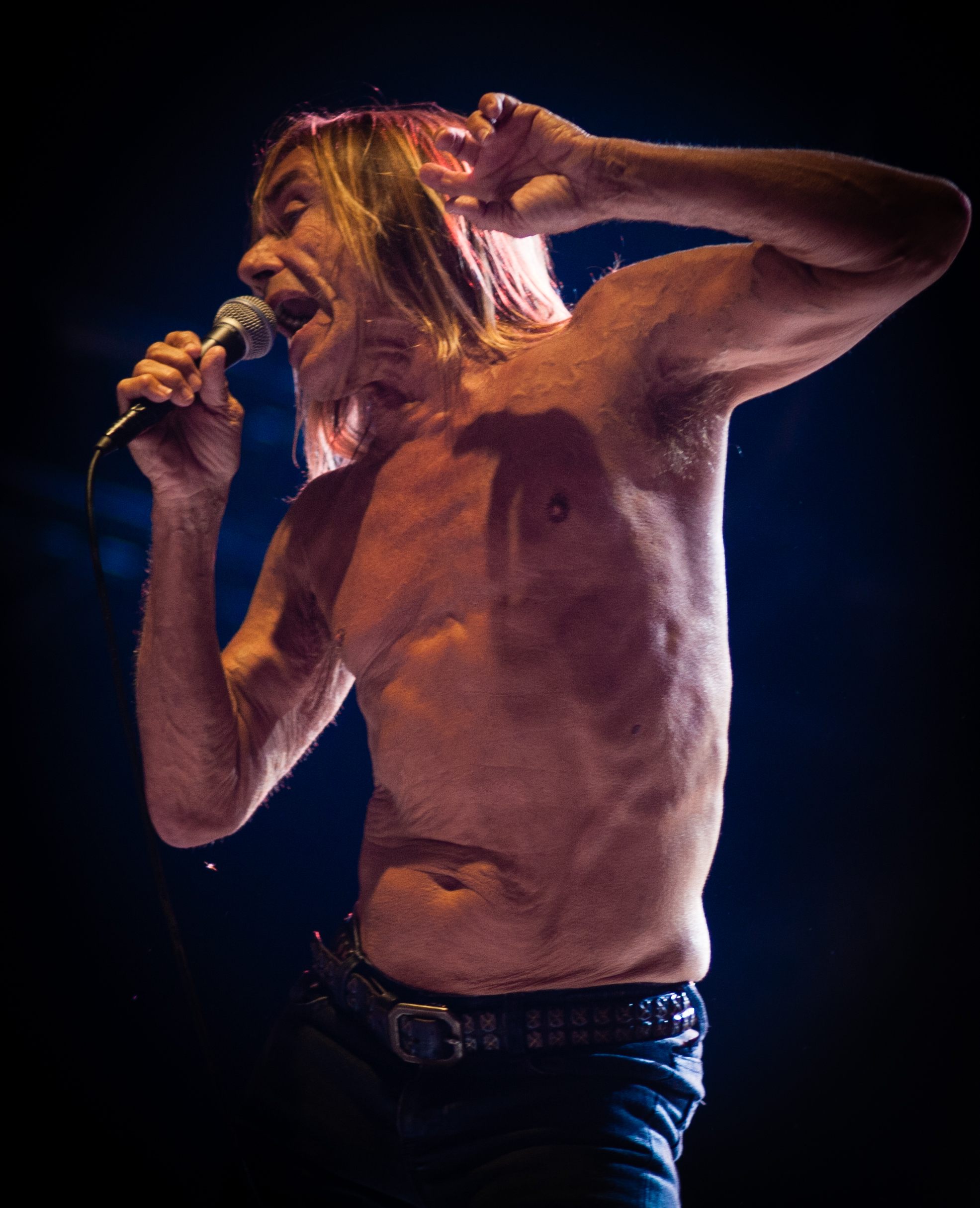 Iggy Pop. Follow me on facebook Twitter : @didyPhotography All the photographies I've made are now under CC0 (Creative Commons Zero) CC0 - learn more To the extent possible under law, Eddy BERTHIER has waived all copyright and related or neighboring rights to Iggy & The Stooges @ Bsf 2012. This work is published from: France.